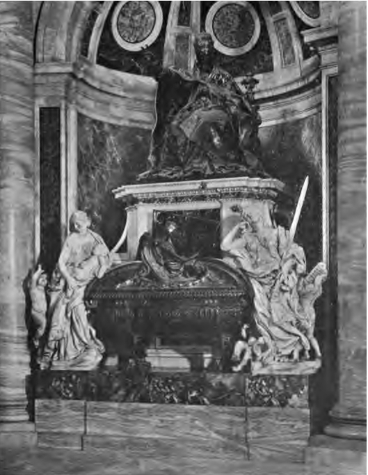 Ferdinand Gregorovius The Tombs of the Popes (1903)